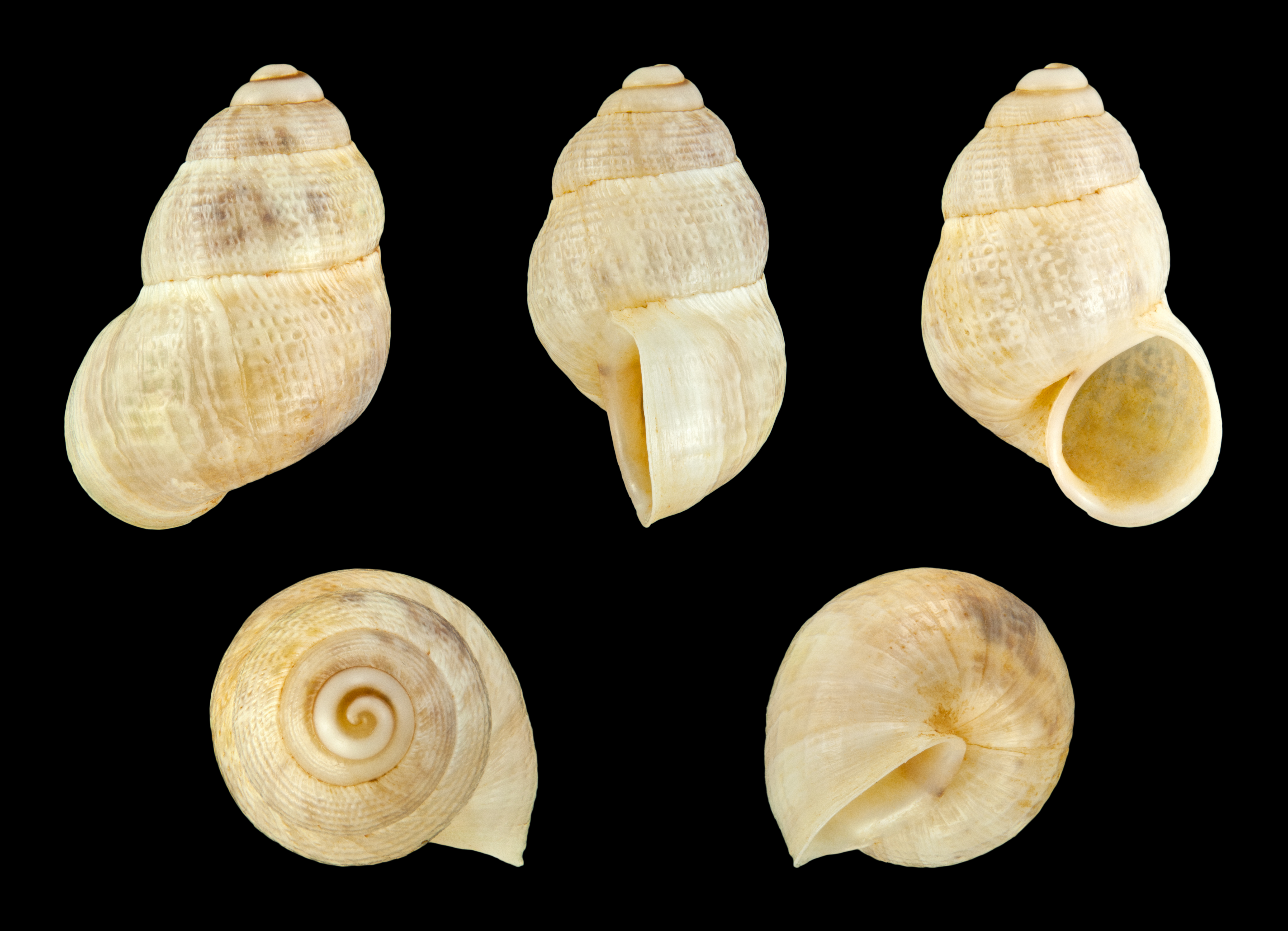 Leonia scrobiculata (Mousson, 1874); Length 1.3 cm; Originating from Morocco; Shell of own collection, therefore not geocoded.